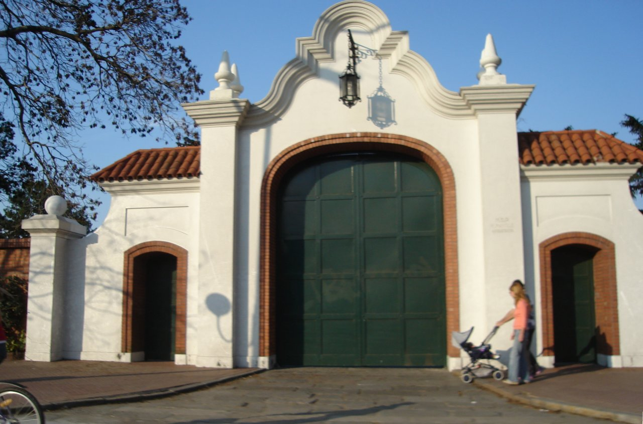 Main gate of the official residence of the President of Argentina, the Quinta de Olivos. Olivos, Buenos Aires Province.